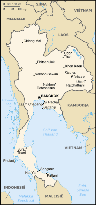 An Afrikaans map of Thailand.